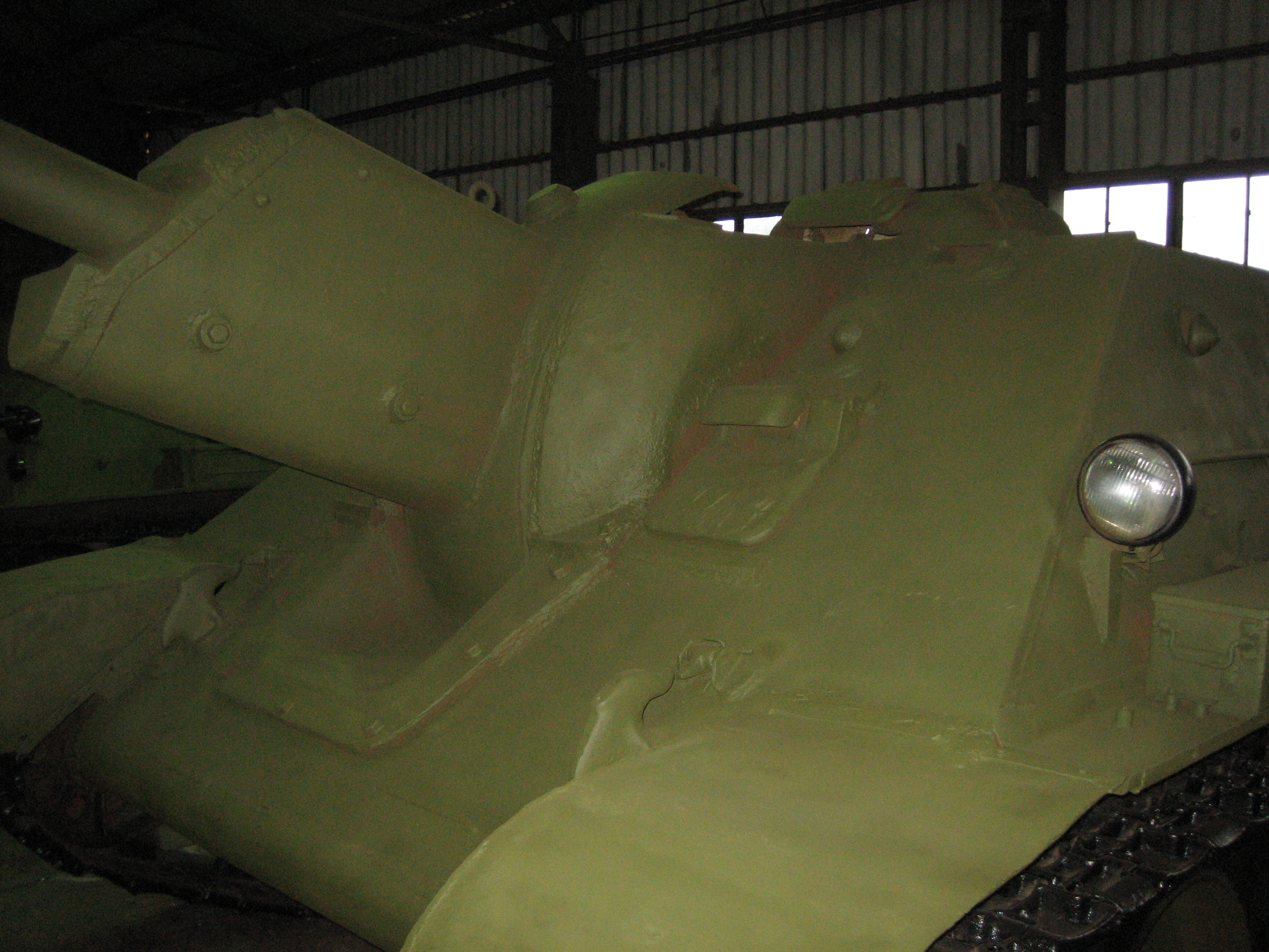 Soviet self-propelled gun SU-122, displayed in Kubinka Tank Museum. Photo taken on September 9, 2007. Source: Photo by me, User:Saiga20K.